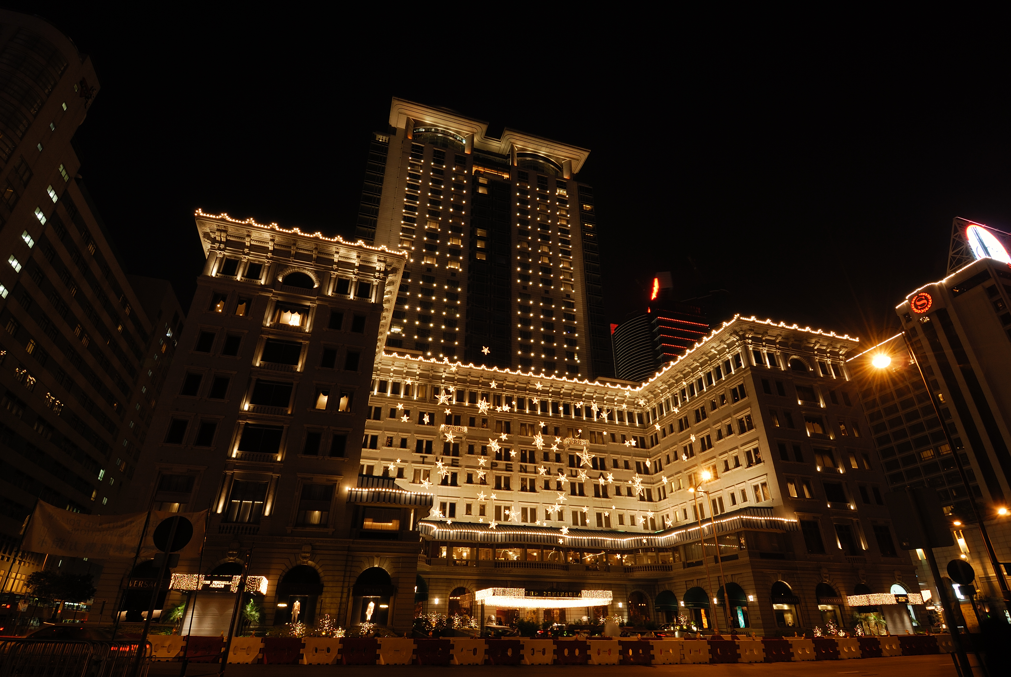 The Peninsula Hong Kong Night View